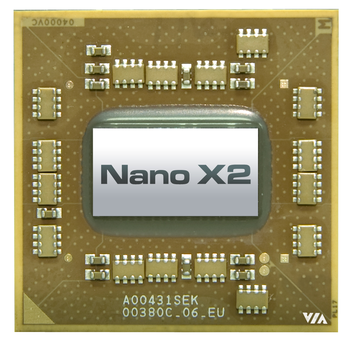 This is an image of the latest VIA Nano X2 processor, a high performance, low power, dual-core processor designed for a range of mainstream PC market segments.